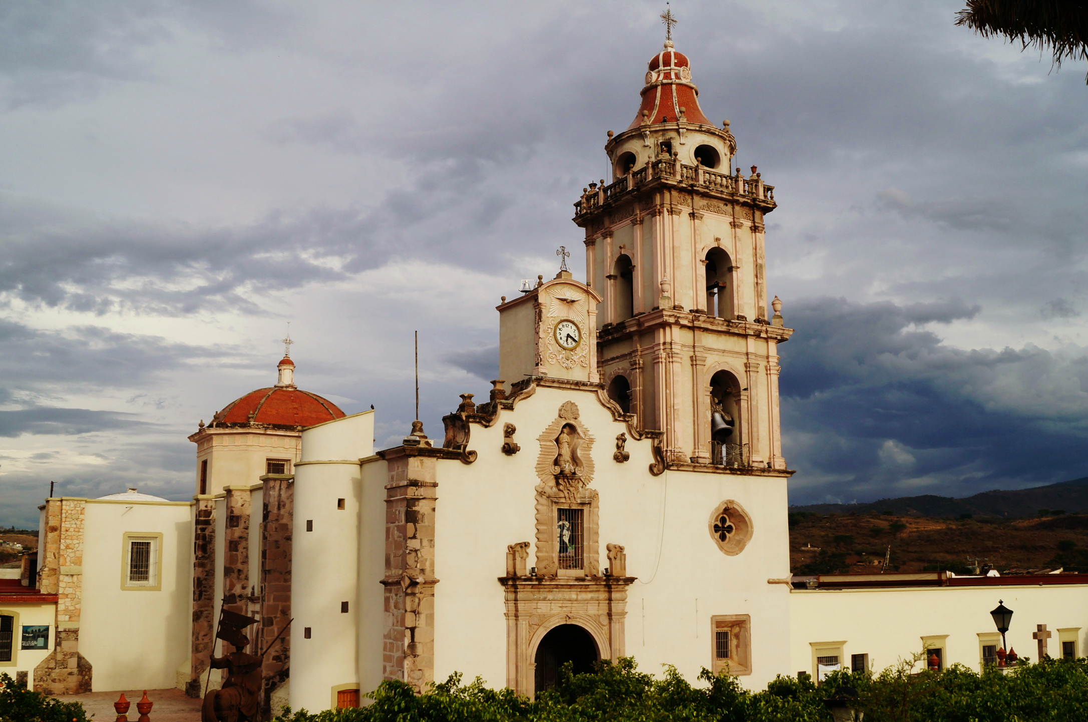 La parroquia de Ixtlán del Río, así como una obra arquitectónica única en su tipo.